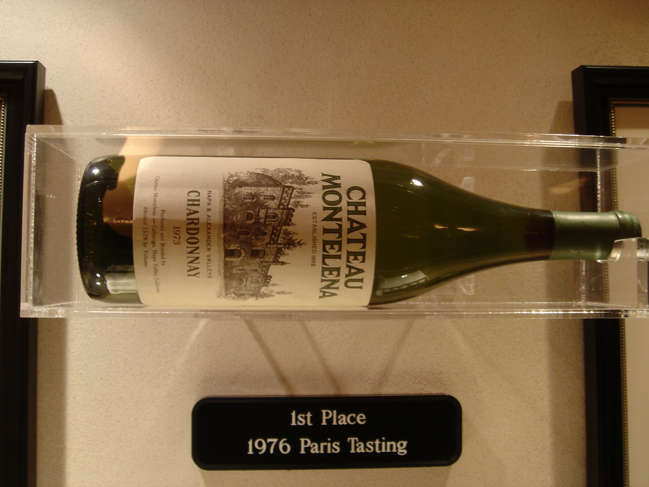 California winery Chateau Montelena, Napa Valley wine that won the Chardonnay tasting at the 1976 Paris tasting.